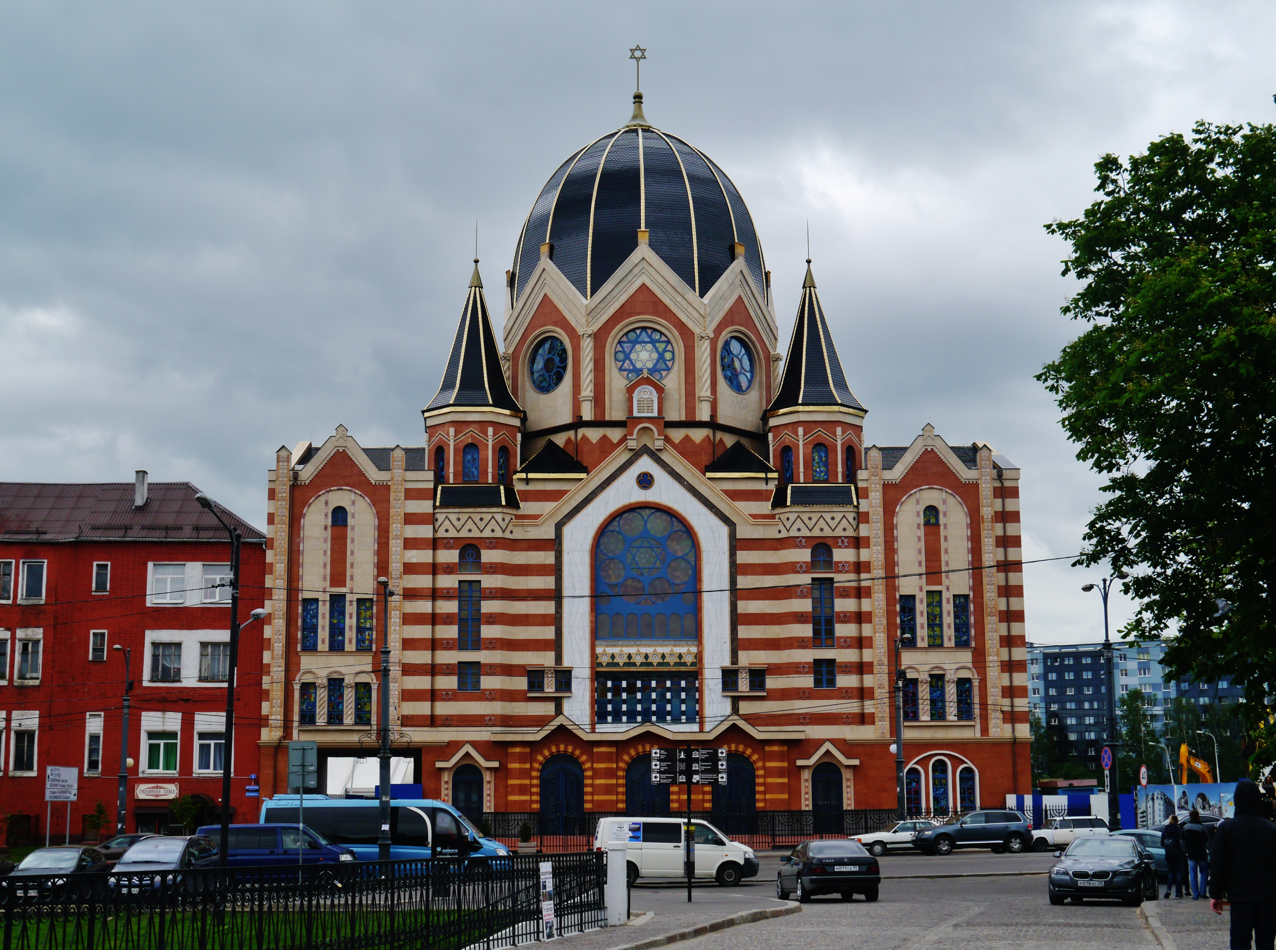 rebuilt Synagogue, Königsberg/Kaliningrad, East Prussia/Oblast Kaliningrad, Russia (former Germany)